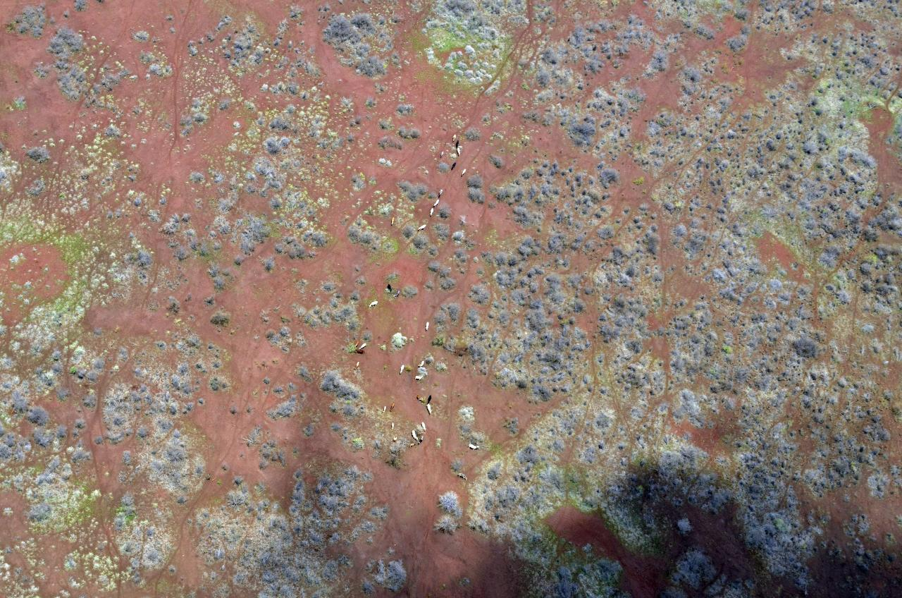 Pic by Neil Palmer (CIAT). A herd of livestock near Marsabit in northern Kenya. Some farmers in the region took out livestock insurance, and this year are receiving the first payouts after a prolonged drought.